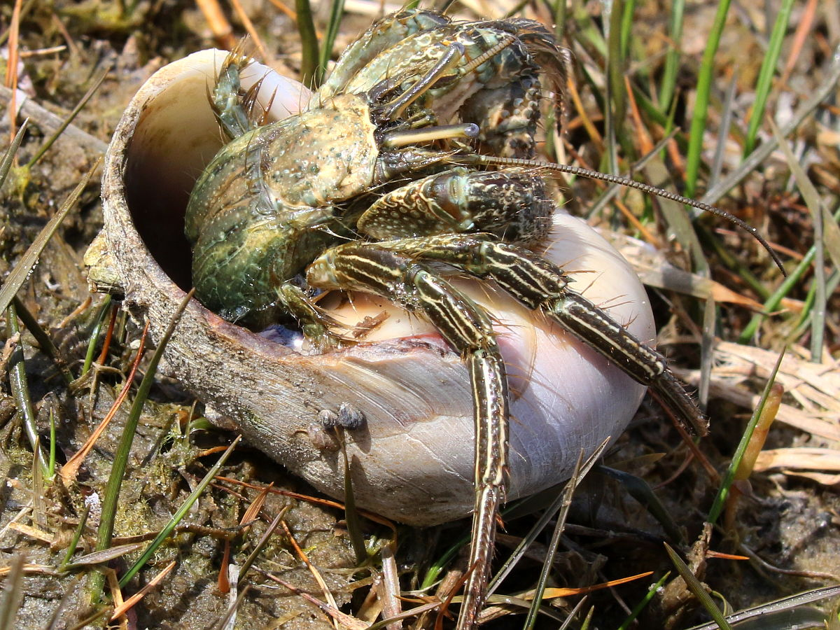 Thinstripe hermit crab at Cape Hatteras National Seashore, USA